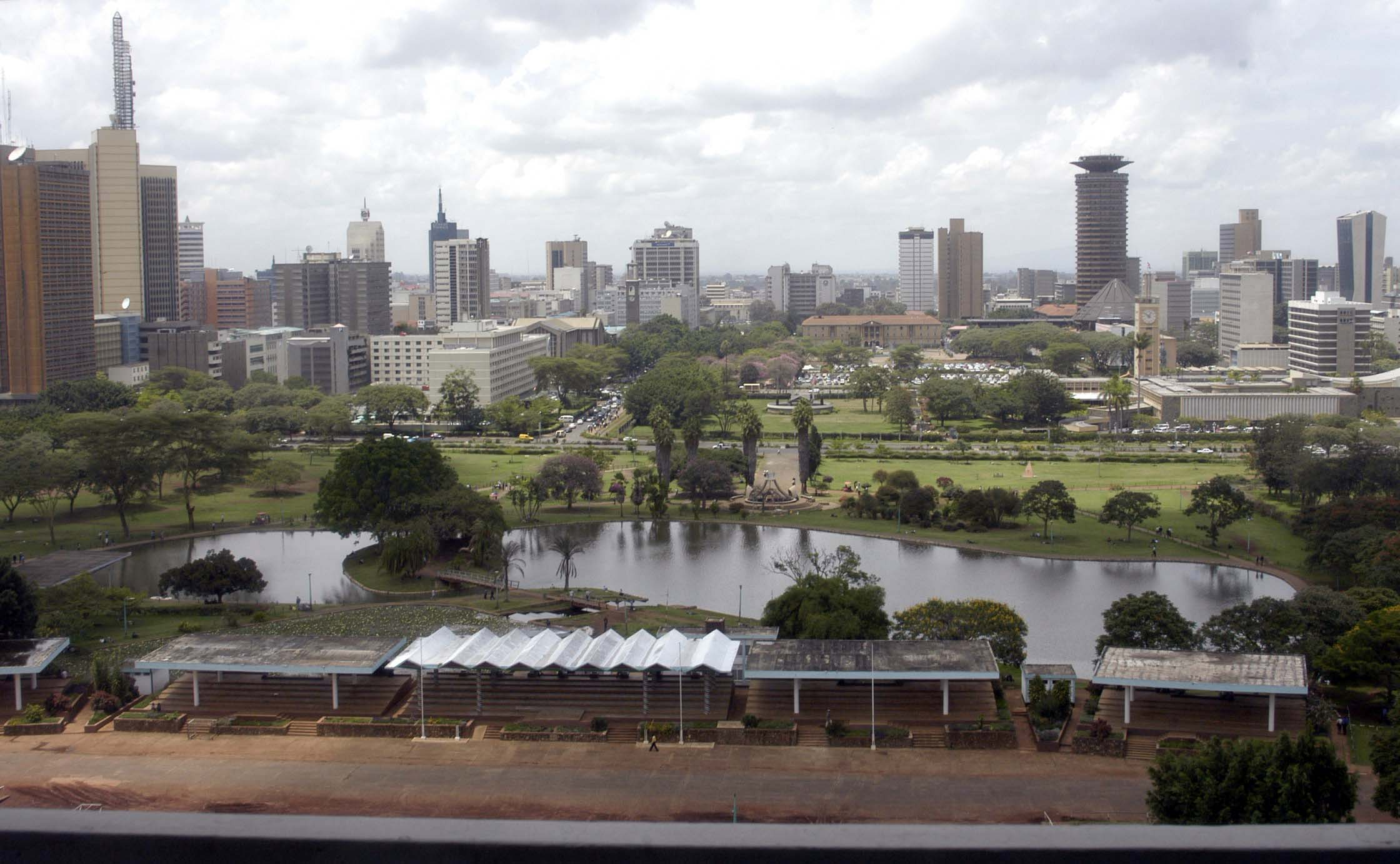 City view from uhuru park nairobi